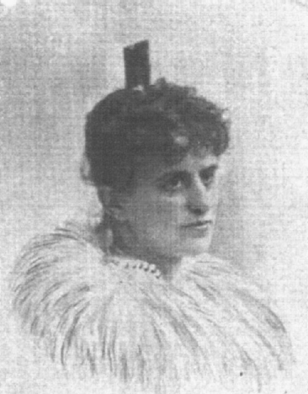 Helen Augusta Blanchard (1840-1922)